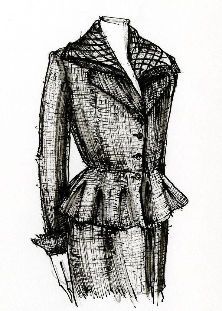 Drawing of the Thesaurus concept : 'peplum jacket'